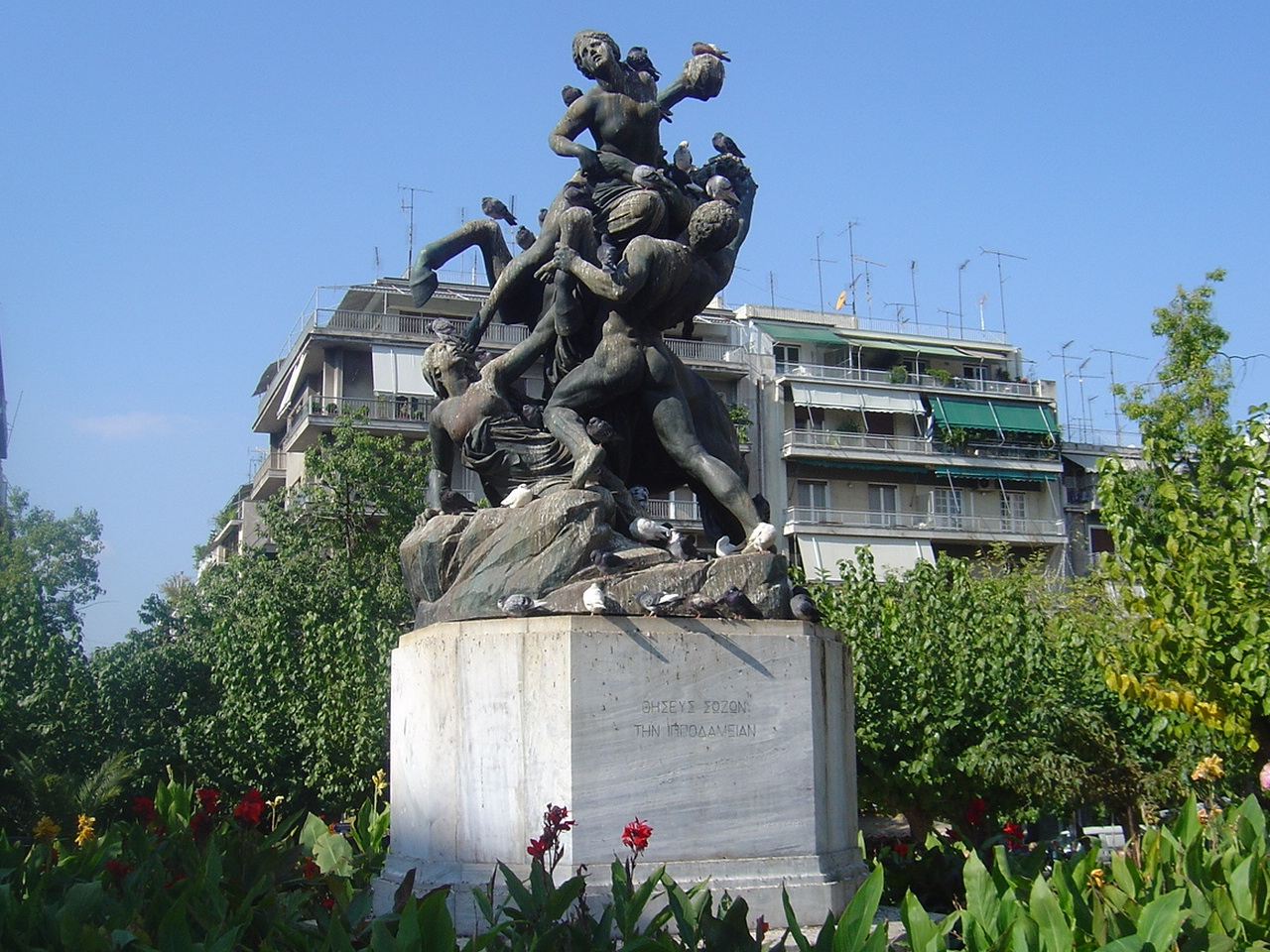 Theseus saves Hippodameia, statue on Victoria square, Athens